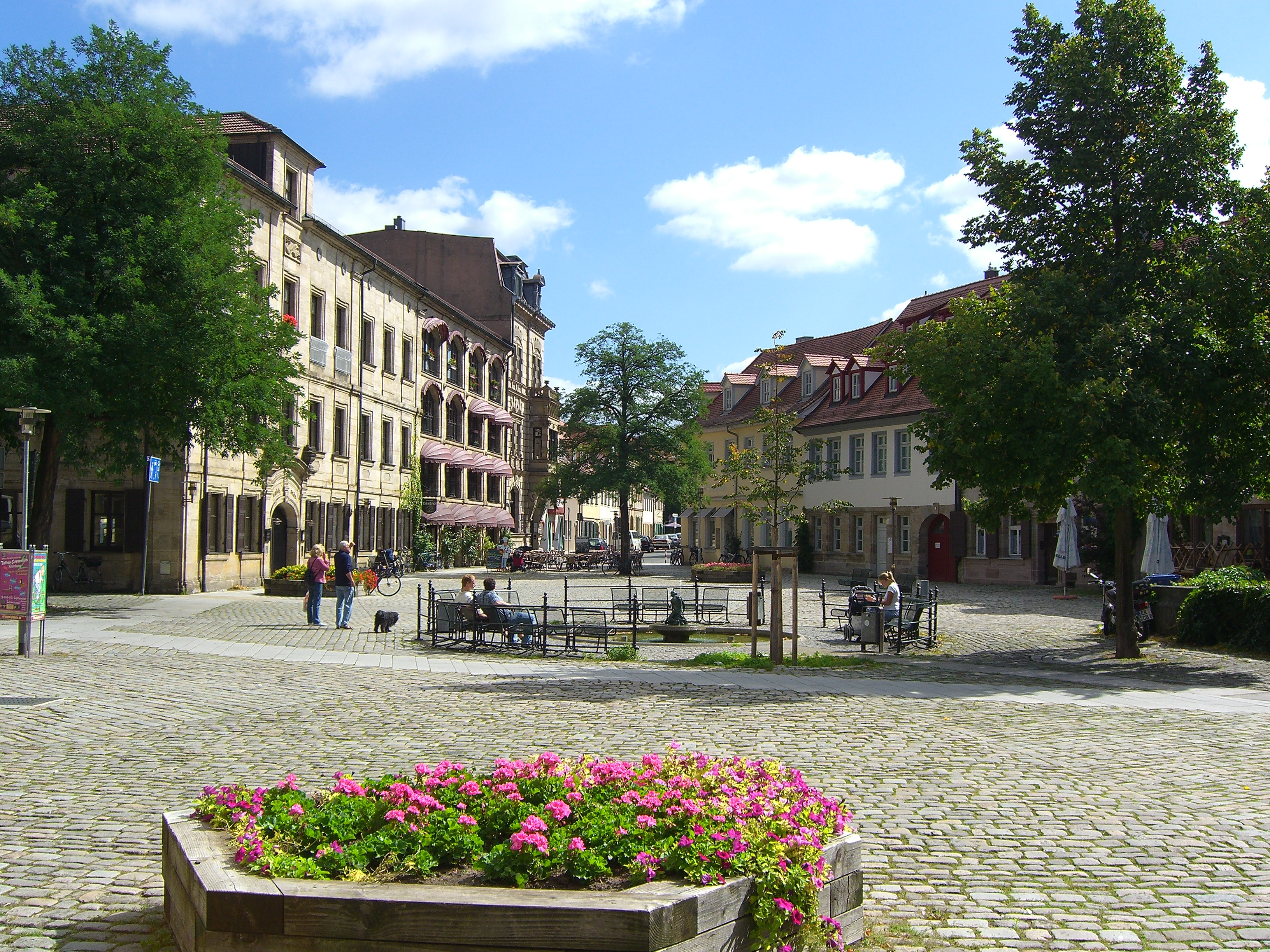 Altstädter Kirchplatz (Old Town Church Place) in Erlangen, Germany.